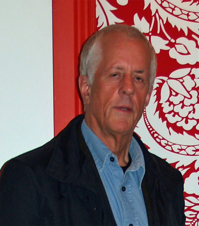 Michael Apted by David Shankbone